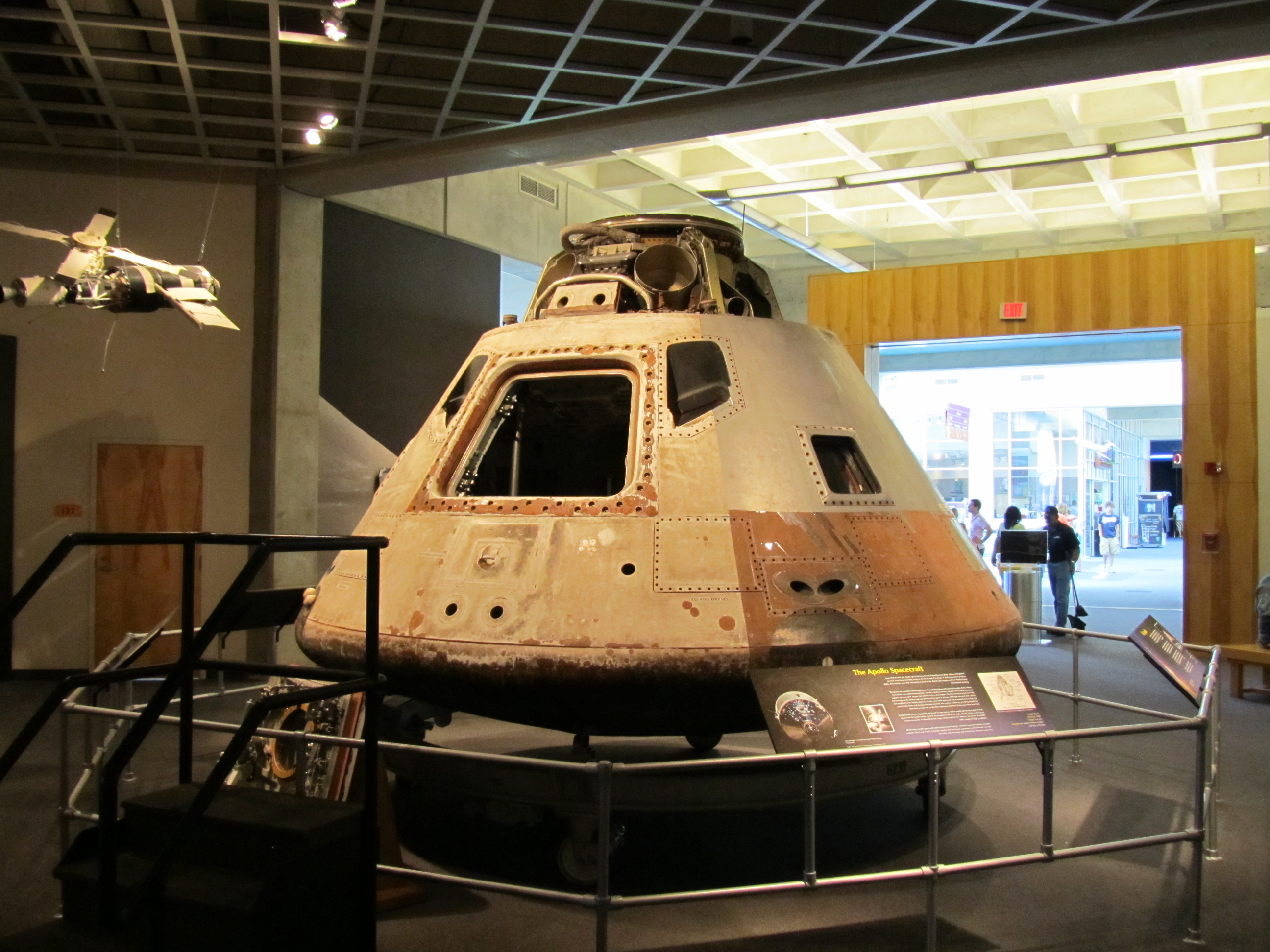 CSM-117 SKYLAB 2 SL-3 Glenn Research Center, Cleveland, Ohio